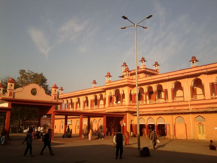 Railway Station Campus